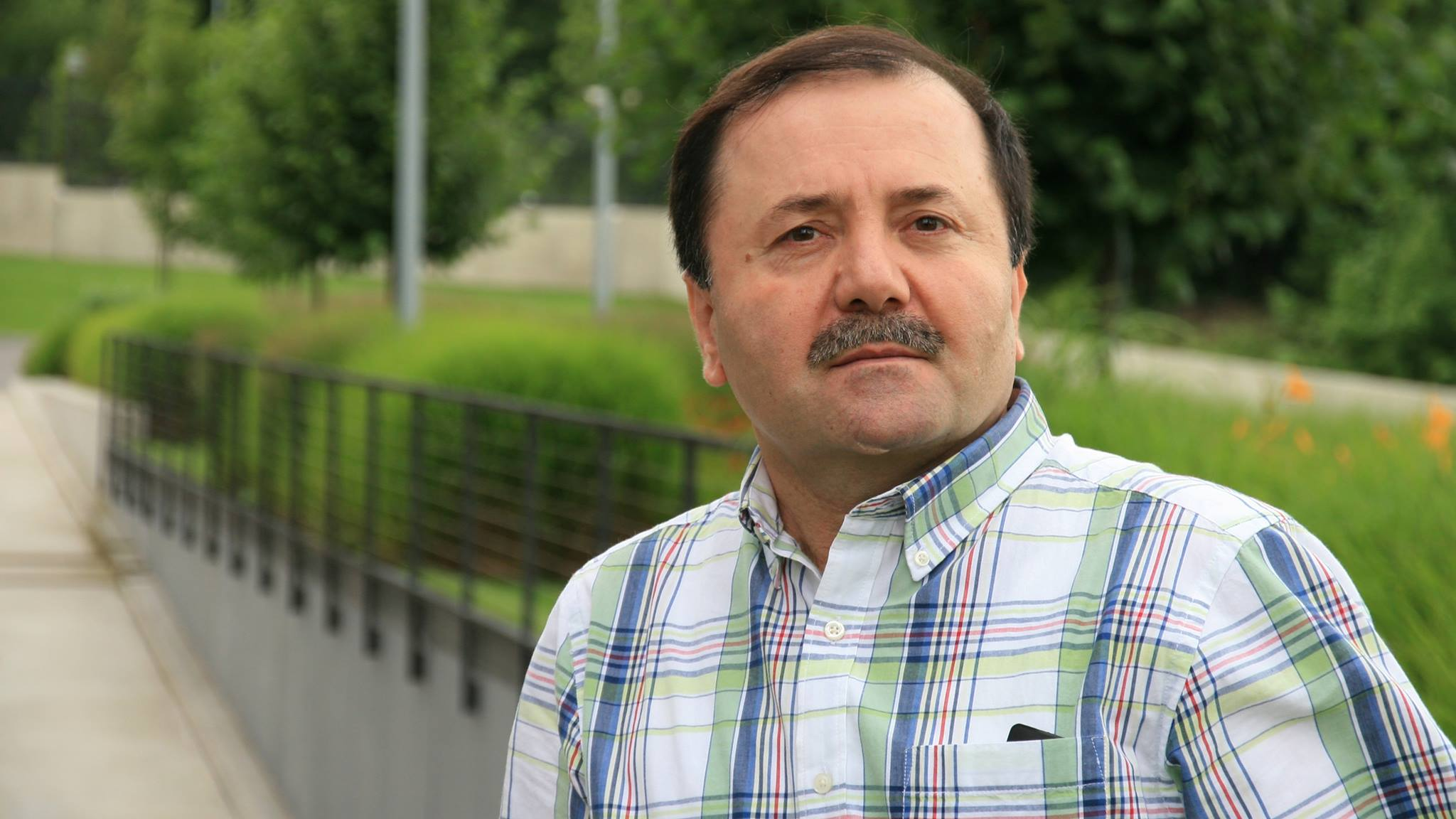 Salimjon Aioubov (Салимҷон Аюбов, 18 August 1960, Mascho, USSR) is a journalist, reporter and writer.